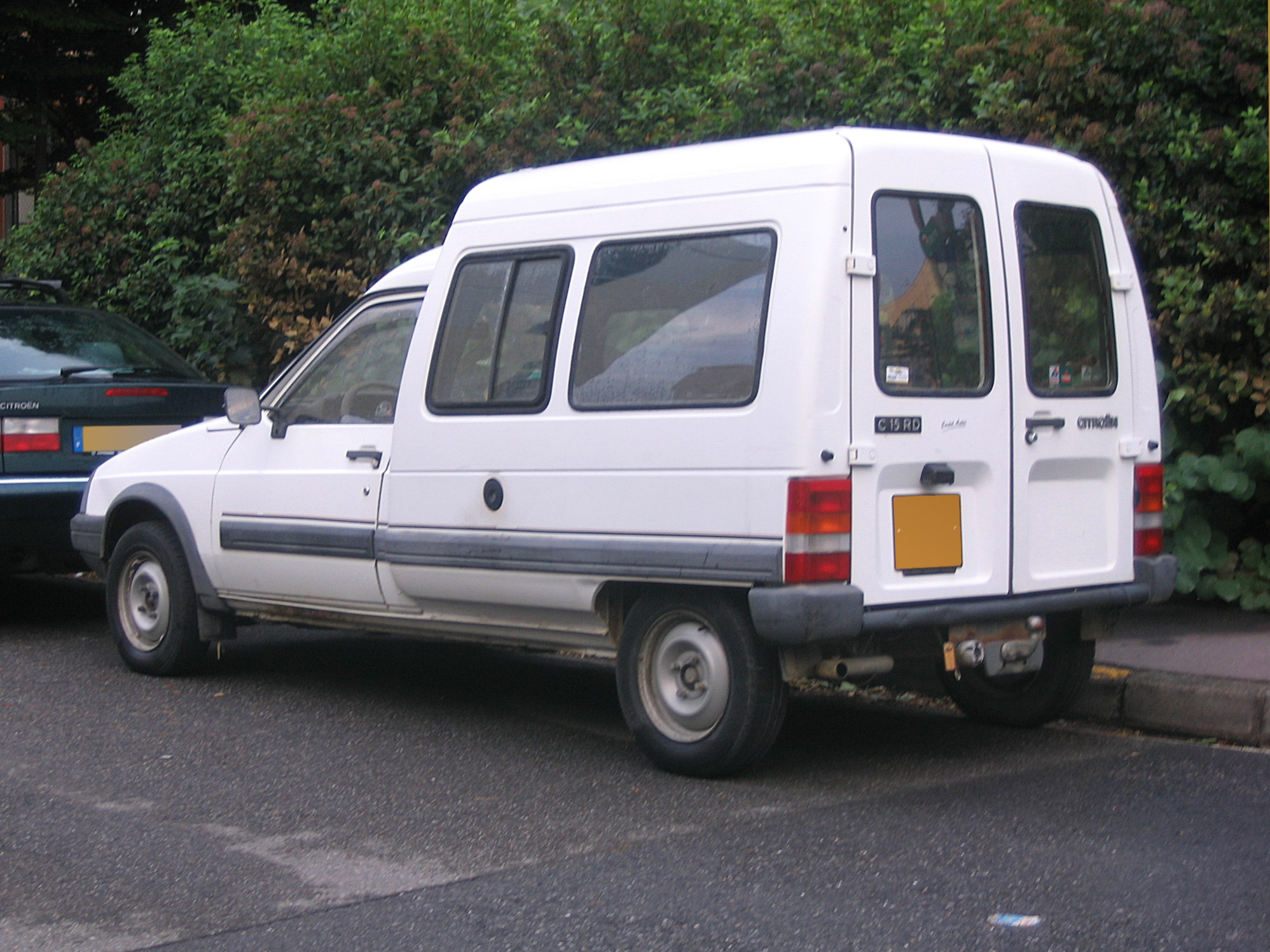 A 1991+ C15 "Familiale" with its additional slide windows and the passengers back seat.